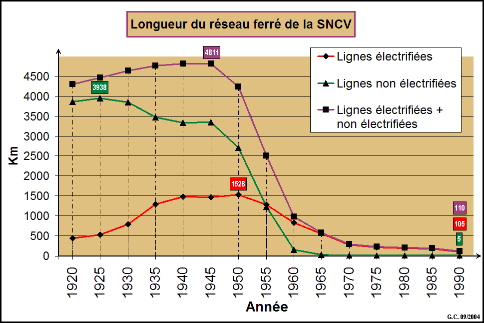 Keywords : SNCV, vicinal railways, rail, metre gauge, tram, network length, history, Belgium